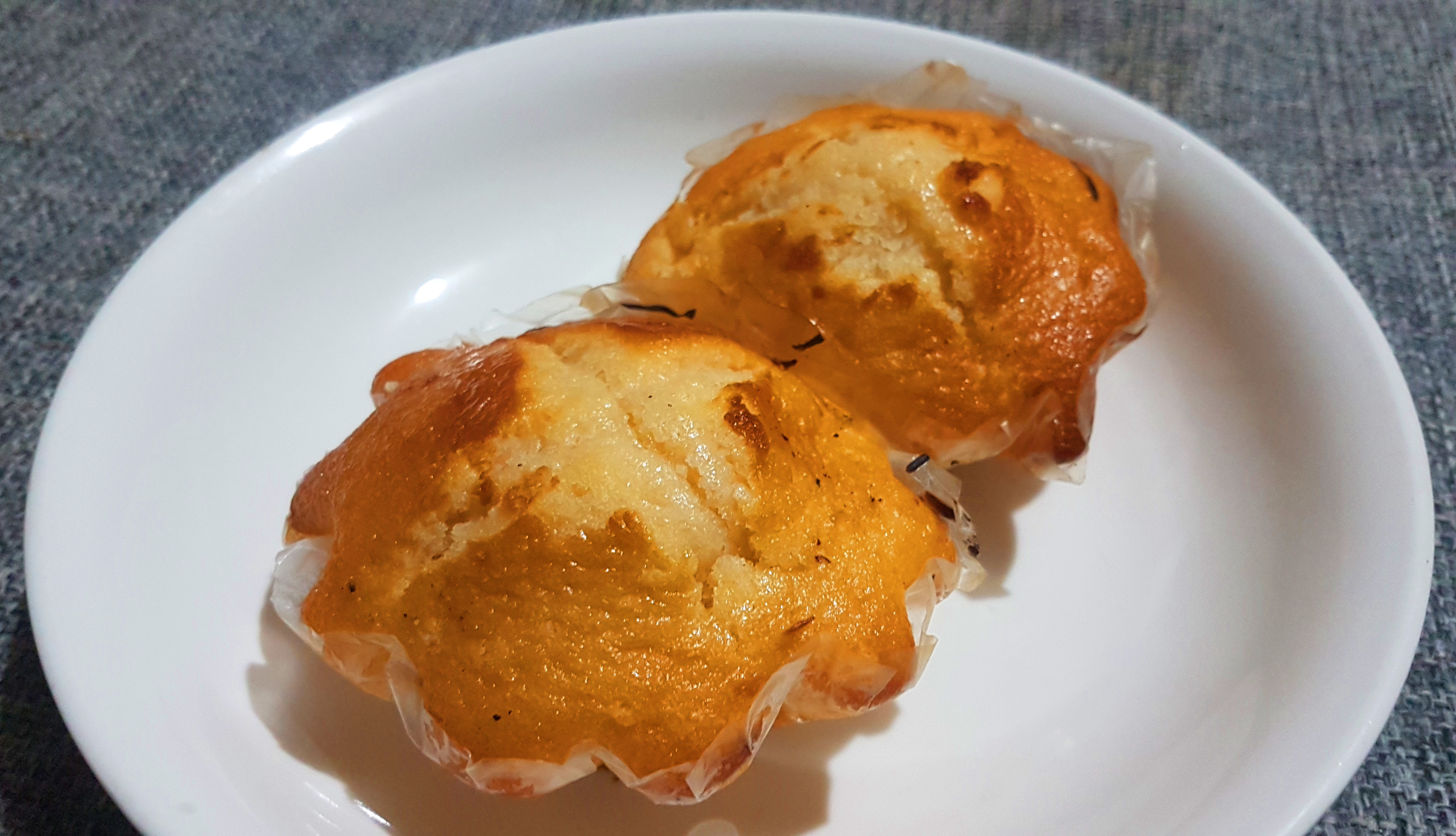 Torta Mamon (Philippines)